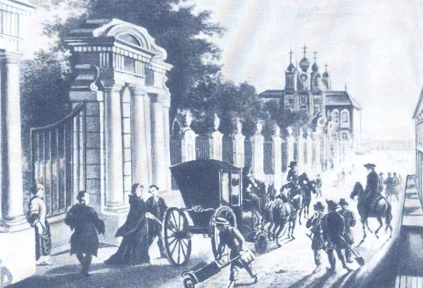 Pravlenskaya Street: Catherine II of Russia is leaving Peterhof.